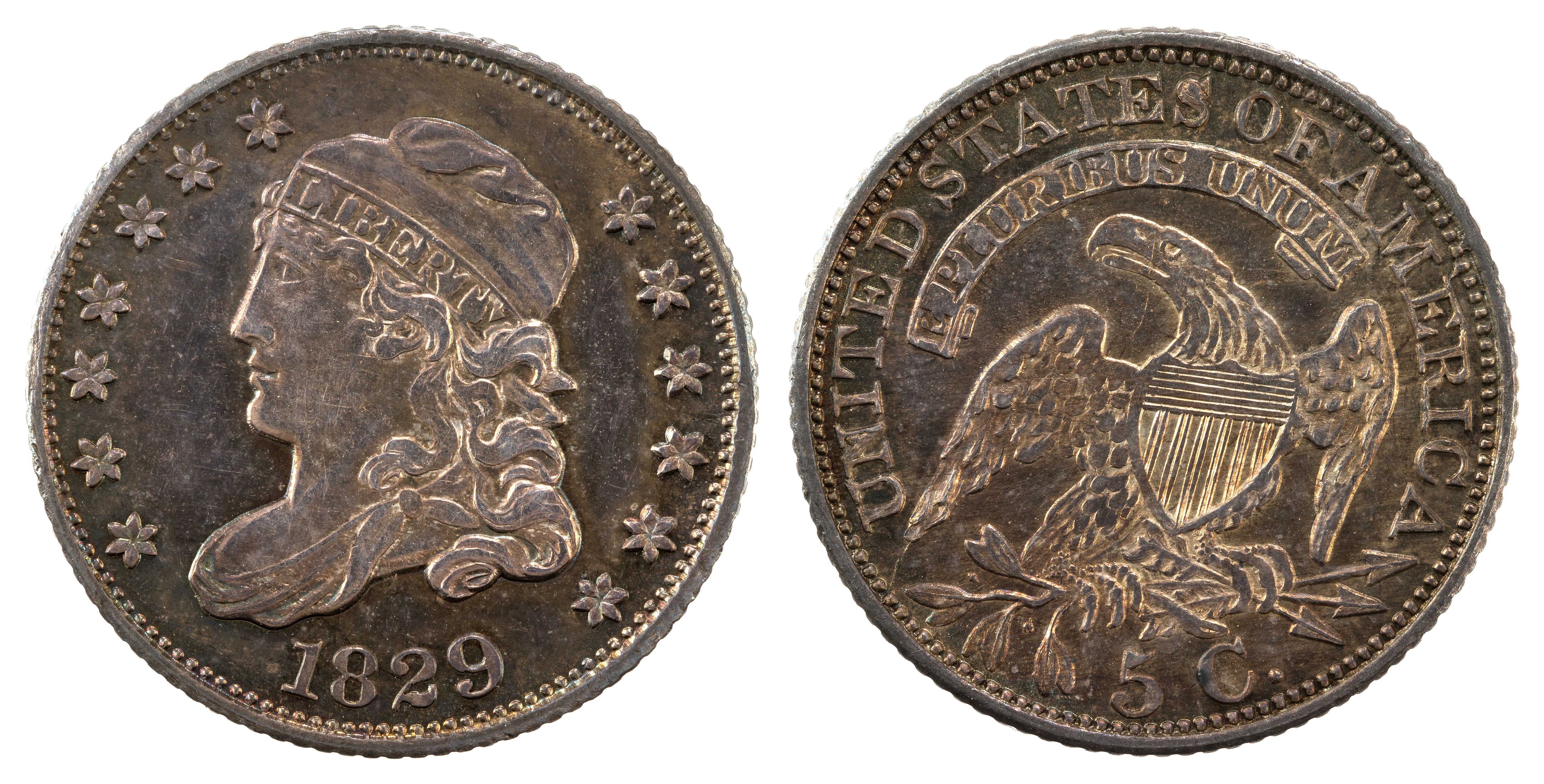 1829-5C-Capped BustJN2015-6566-67